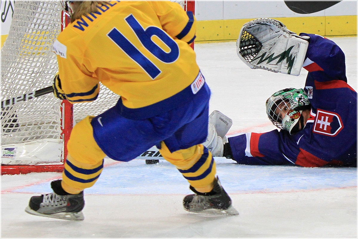 IIHF World Women Championship 2011. Preliminary Round Game Group A. Sweden - Slovakia 3-0.